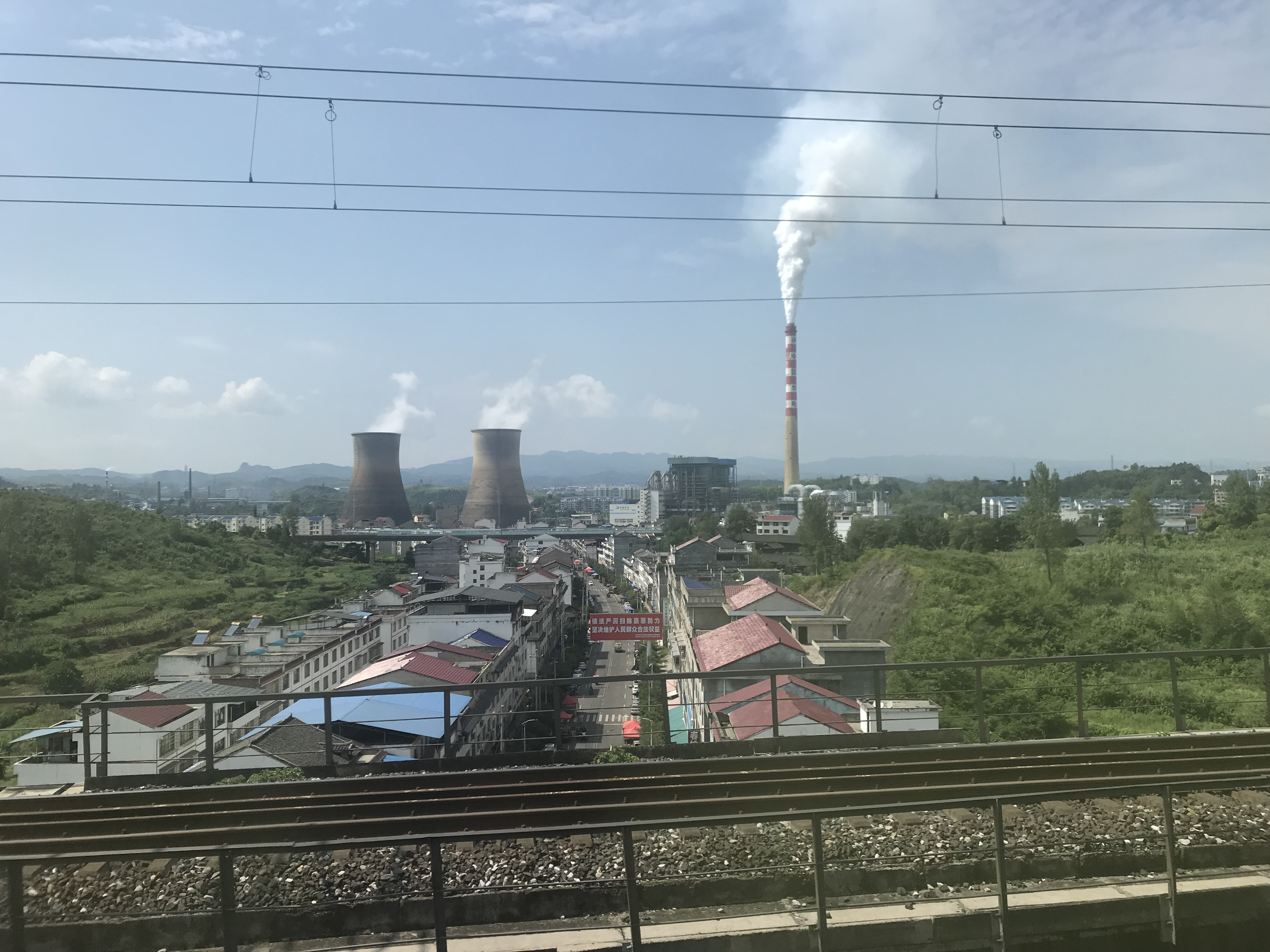 With Dalong Power Station in the background